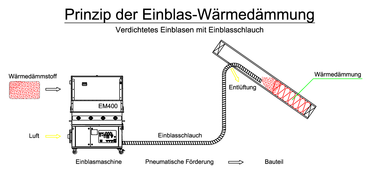 Principle blown-in insulation method, Processing of insulation material to a thermal insulation, dense pack processing, retrofit, hose blowing